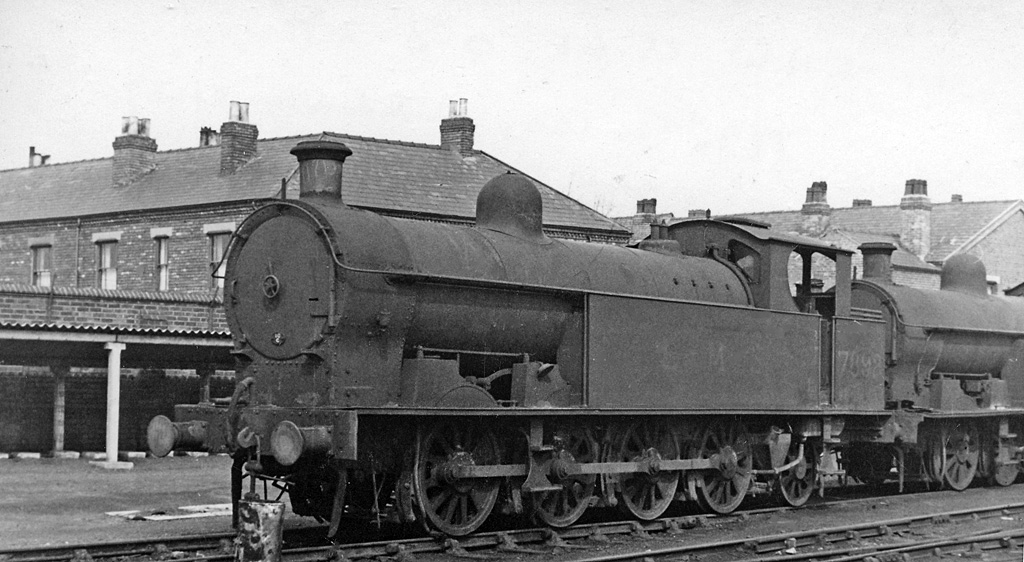 London & North Western 0-8-2T on Scrap Line at Crewe Works. Heading a line of ex-LNW locomotives awaiting scrap is 0-8-2T No. 7892, which had spent it much of its life shunting in the marshalling yard at Speke, near Liverpool. (See also SJ6955 : London & North Western Webb 2-4-2T on Scrap Line at Crewe Works).